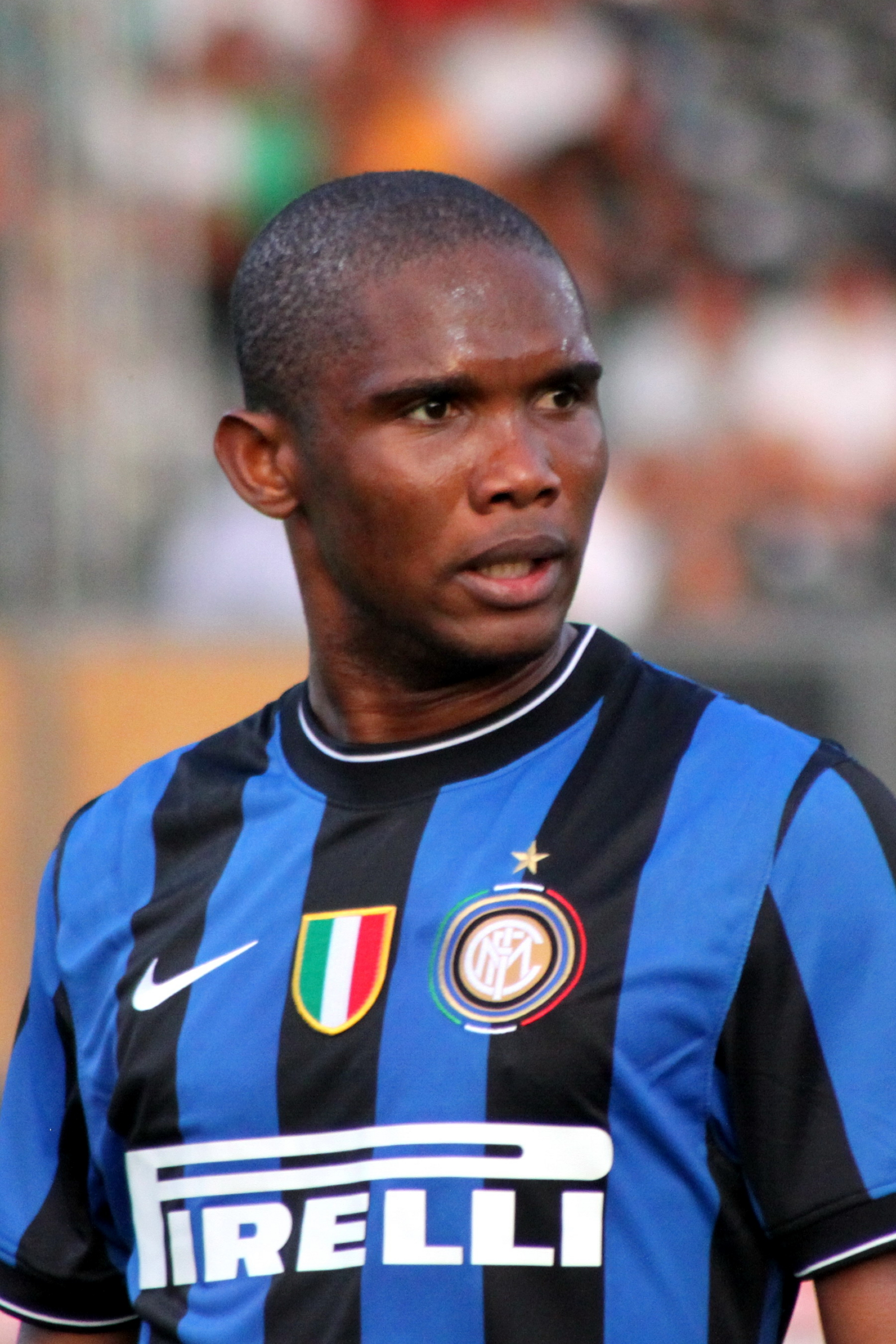 Samuel Eto'o - F.C. Internazionale Milano